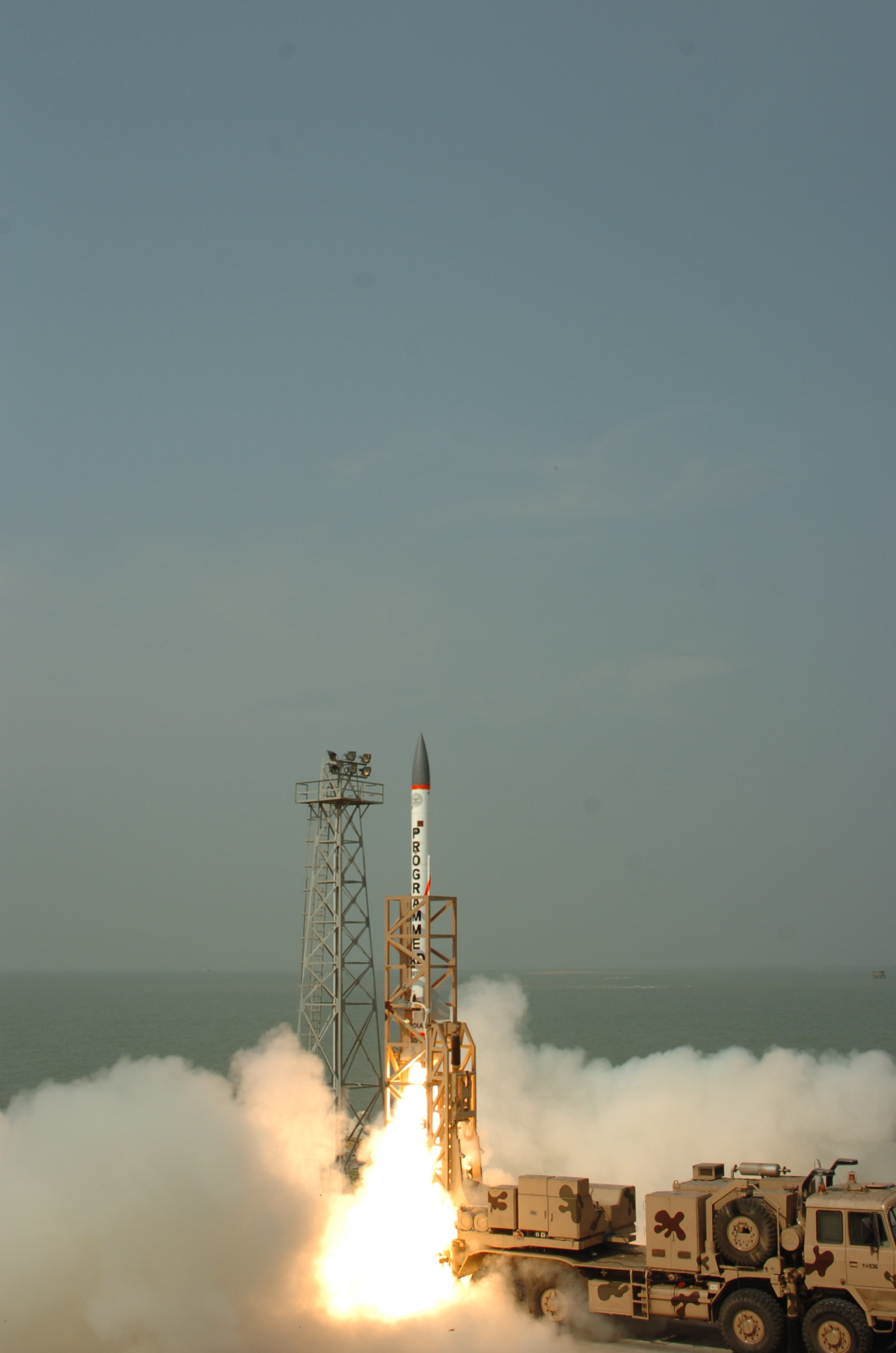 The Advanced Air Defence (AAD) missile being launched during the First ever test of the Indian AAD Missile system, conducted on 6 December, 2007 from DRDO's Integrated Test Range (ITR), Wheeler's Island, Chandipur-on-Sea, Orissa. The AAD is an endo-atmospheric anti-ballistic missile system that can intercept incoming ballistic at altitudes up to 30 km. in this test, the AAD intercepted the incoming missile at an altitude of 15 km.